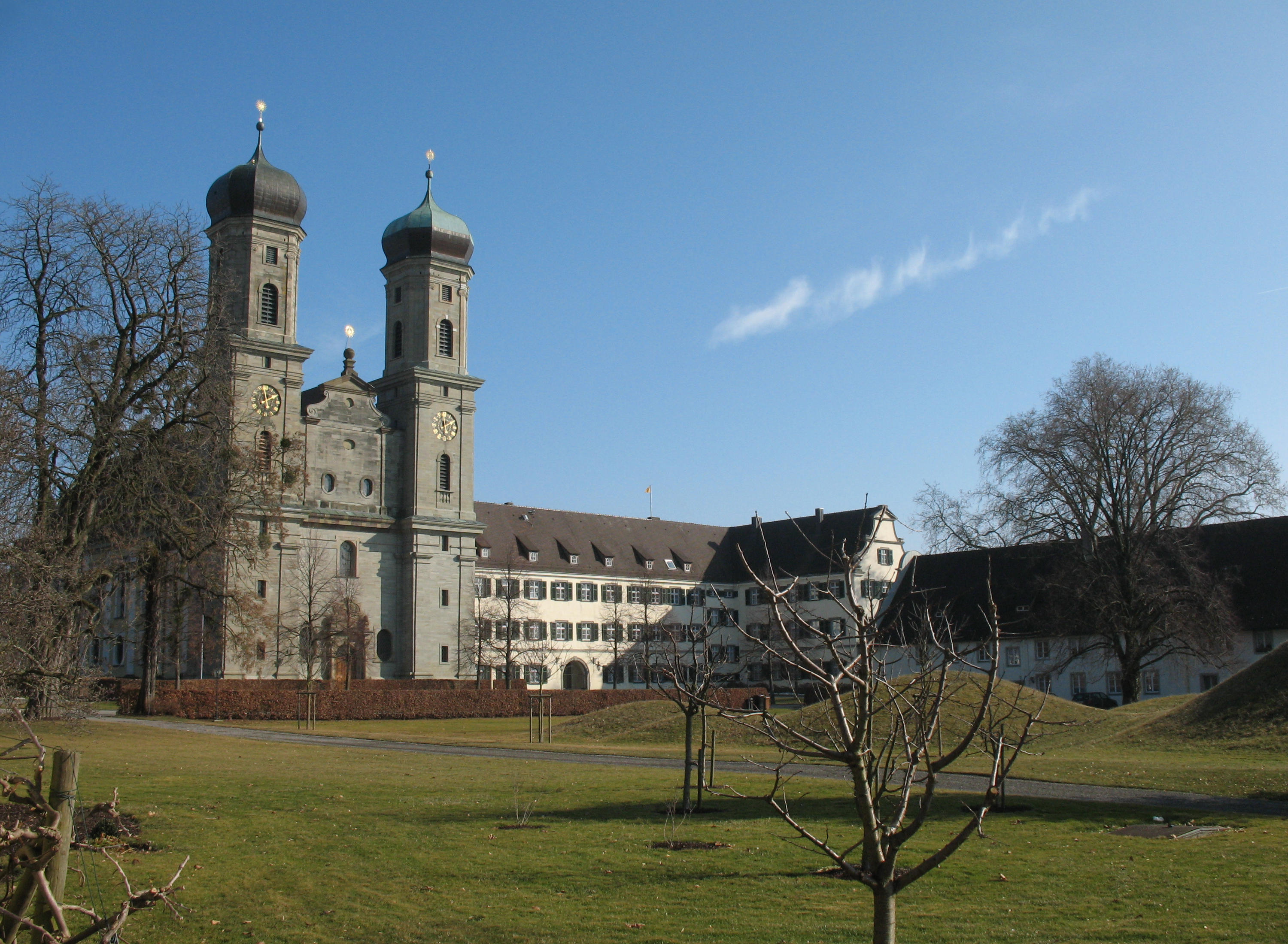 Castle church in Friedrichshafen in Baden-Württemberg, Germany